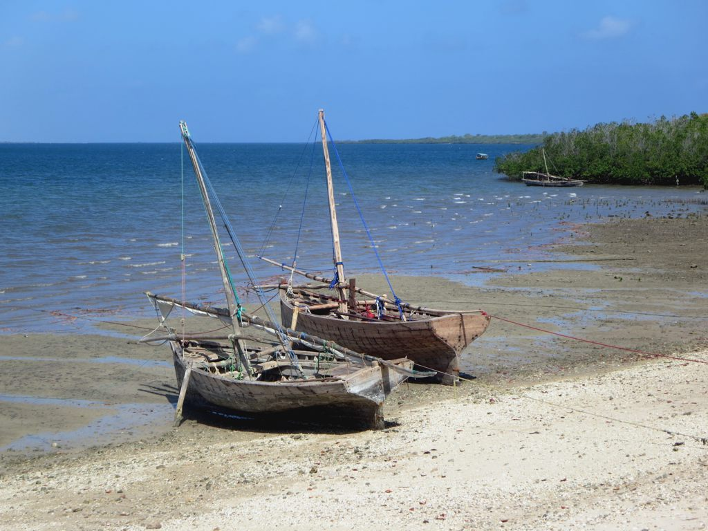 In the 14th and 15th centuries Kilwa Kisiwani in present Tanzania was the seat of the most powerful Swahili city state on the East African coast. Today it's a quiet fishing village (the name means "isle of the fish").